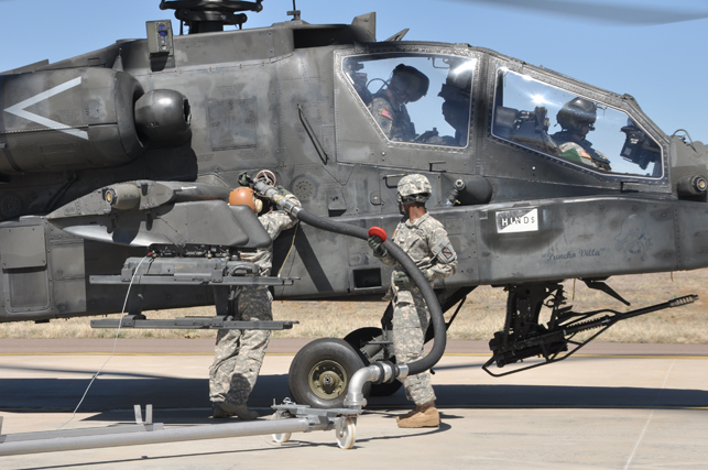 Soldiers of the 59th Quartermaster Company conduct a "hot" (engine running) refuel of an AH-64D Apache helicopter at the Butts Army Airfield, Fort carson, Colorado